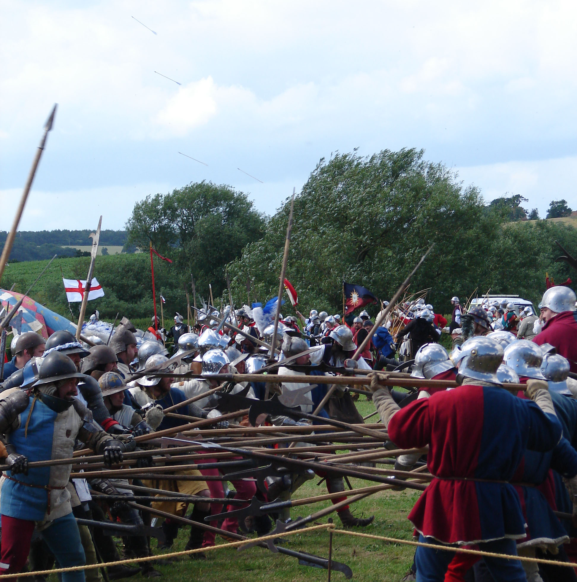 Reenactment at Tewkesbury Medieval Festival: the sides of York and Lancaster clash as arrows fly across the battlefield.